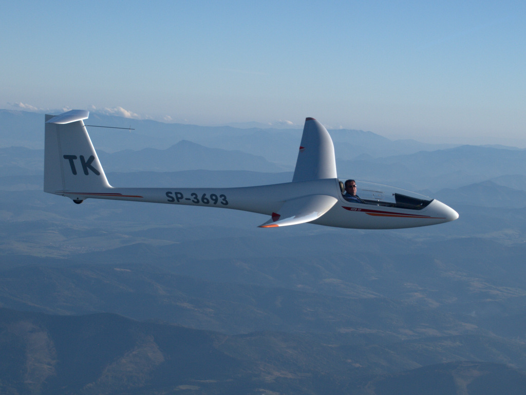 Glider SZD-55